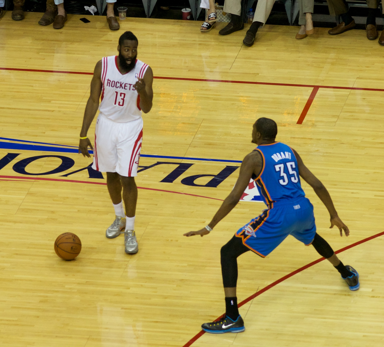 James Harden and Kevin Durant during game 6 first round playoffs